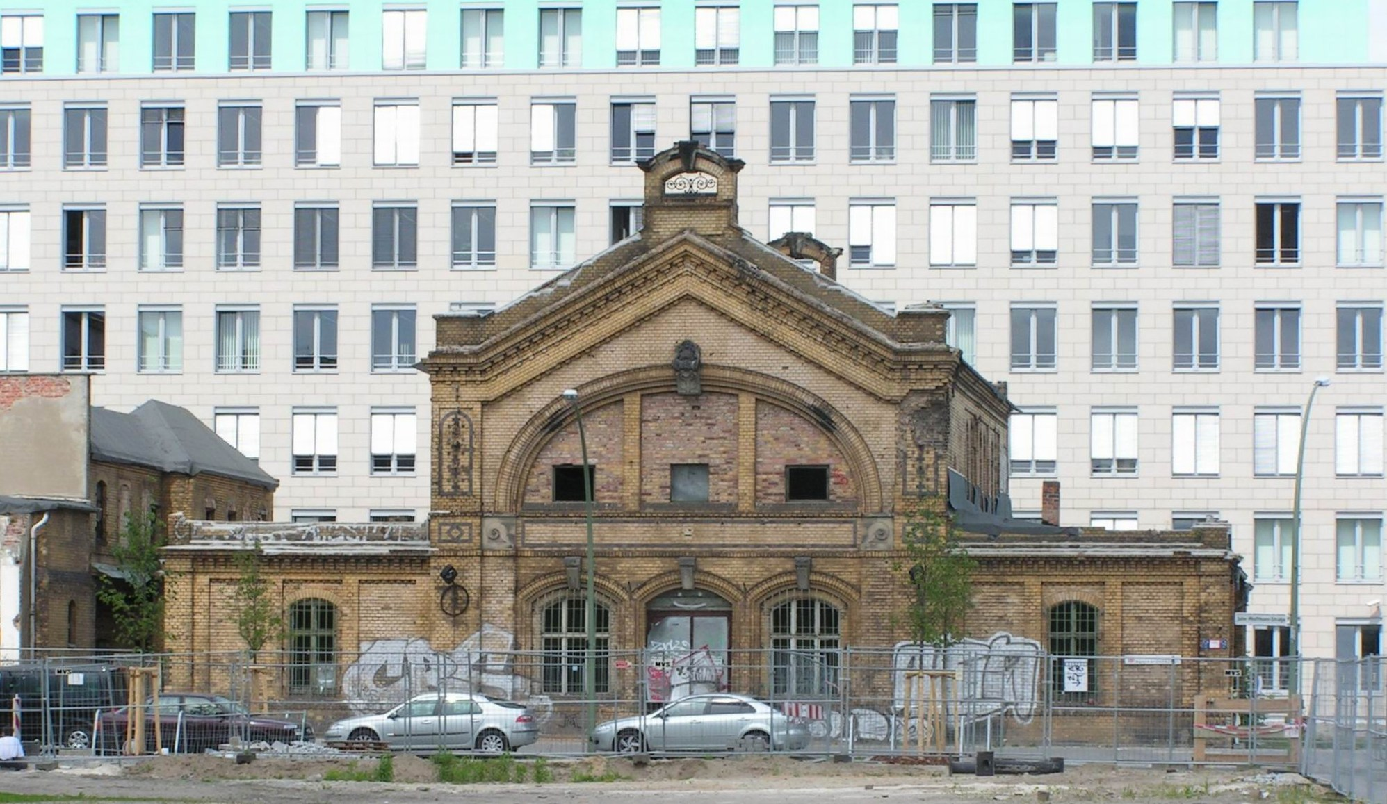 Cladding of the old entrance building, station Stettiner Bahnhof / Nordbahnhof (Berlin), Germany